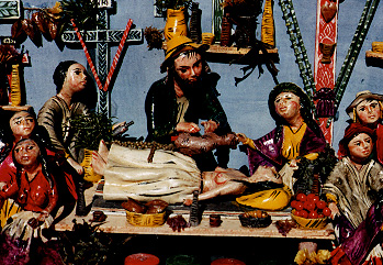 Photo of Peruvian Retablo